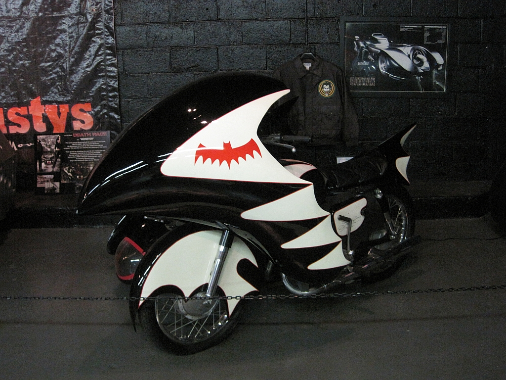 Rusty's TV & Movie Car Museum in Jackson, Tennessee. Batman